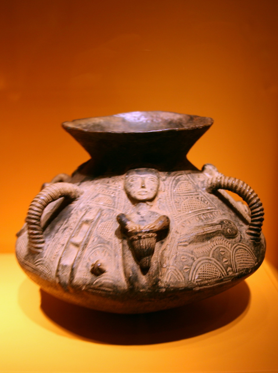 Funerary vessel, possibly Efik peoples, lower Cross River region, Calabar area, Nigeria, early 20th century, Wood, skin, plant fiber, bone, dye Skin-covered masks in Africa are found only in southeastern Nigeria and western Cameroon. Historical evidence suggests that the peoples of this region regard skin as a substance associated with the spirits of the dead and their animal counterparts. The facial features are realistically portrayed. The spiral horns are similar to the hairstyles worn by girls during a ceremony marking the end of their seclusion prior to marriage.